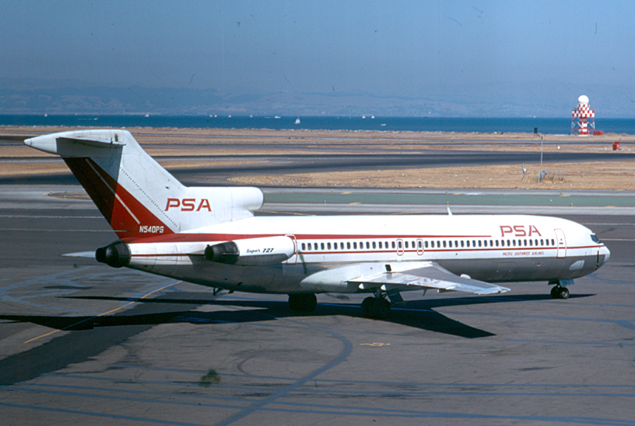 San Francisco September 1971.